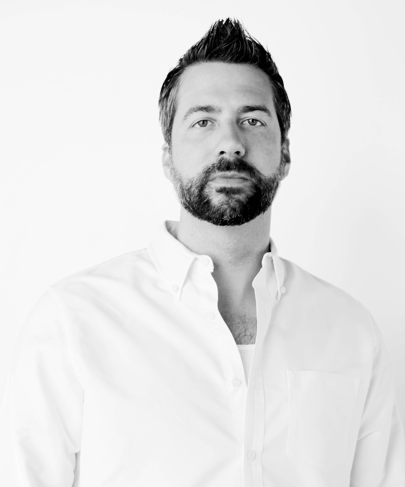 head shot pf Brian sidney Bembridge